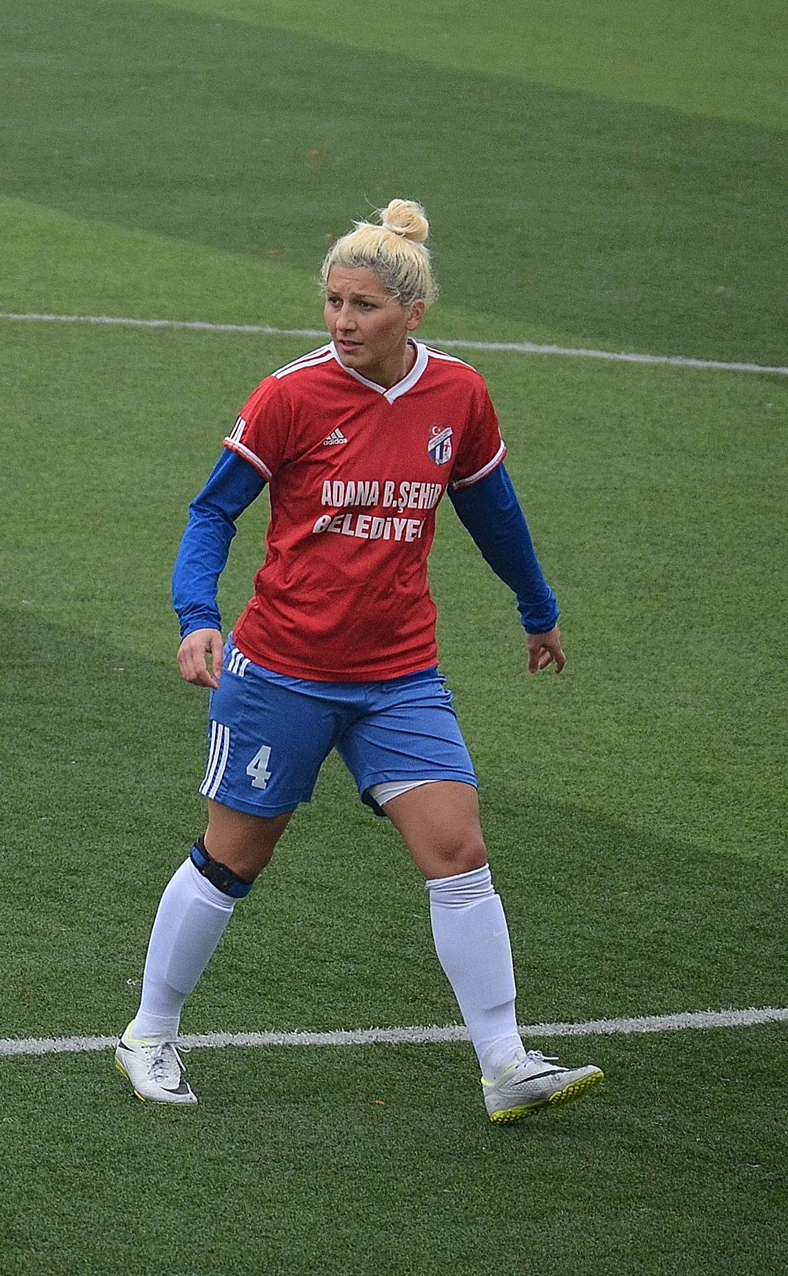 Nino Sutidze for Adana İdmanyurduspor in the 2014-15 season